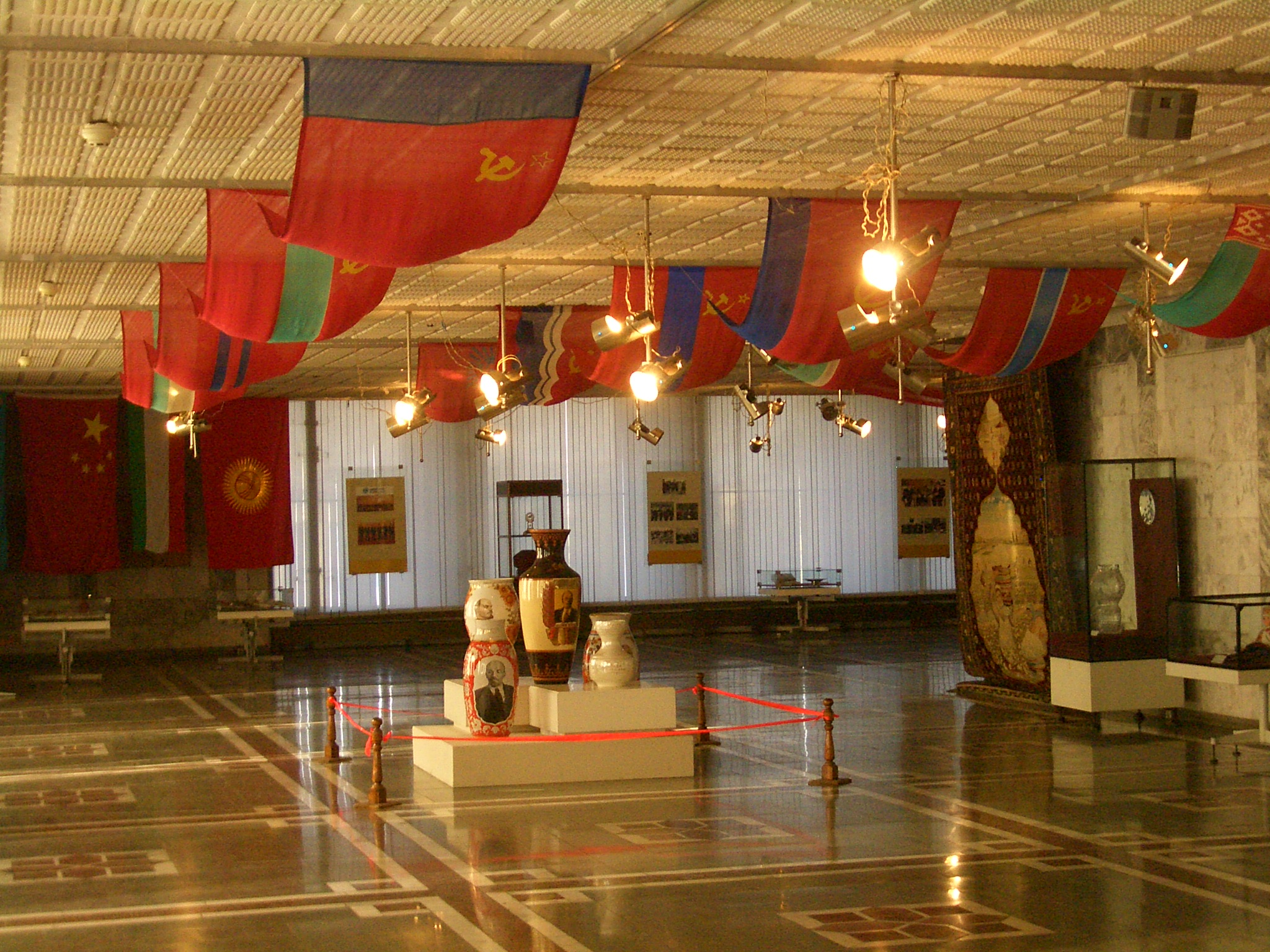 A hall in the National Museum (formerly Lenin Museum) in Bishkek, decked with the flags of the Soviet Republics. A few vases with portraits of V.I. Lenin on them stand on a small pedestal in the middle of the hall.